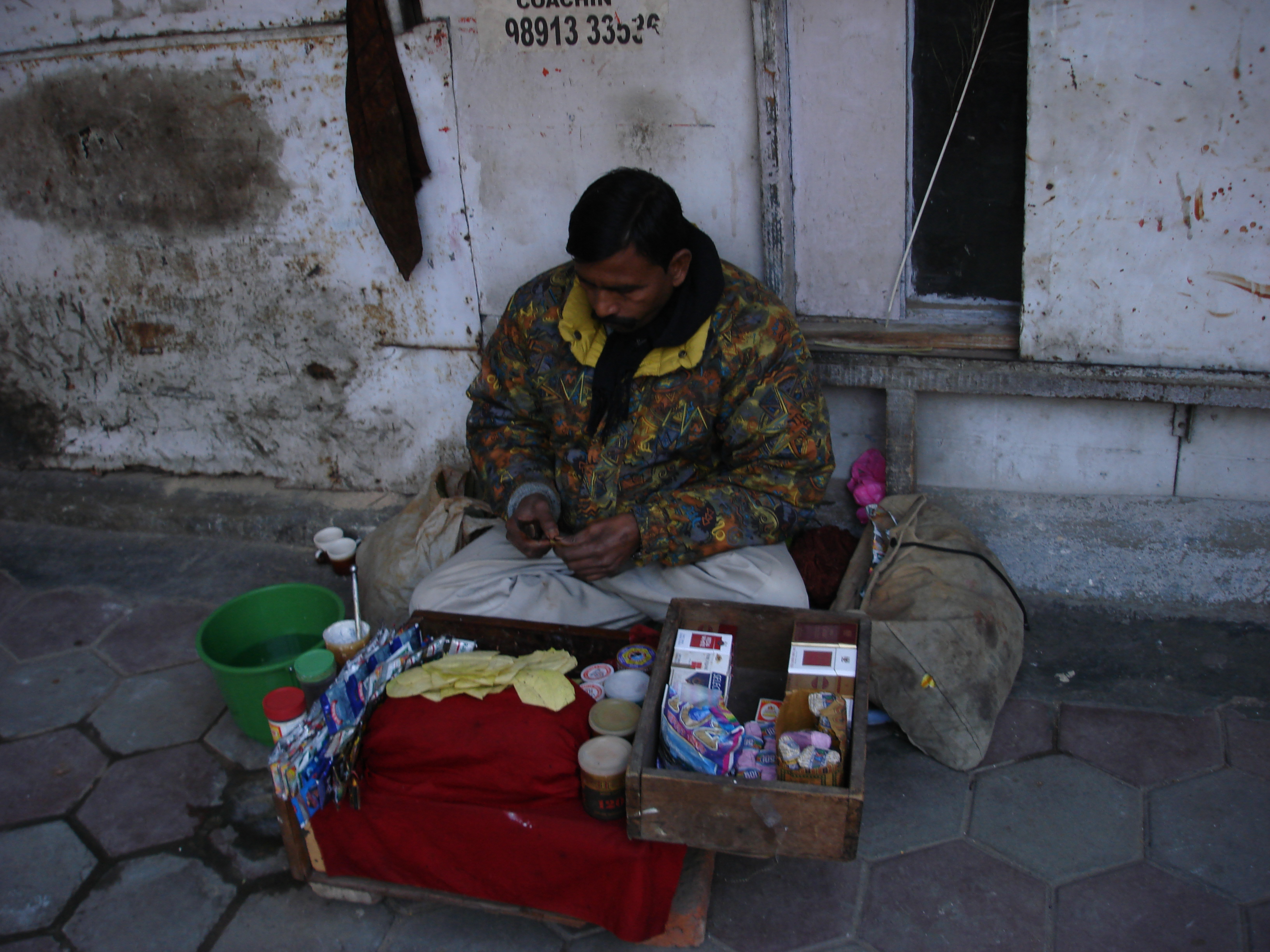 Paan masala vendor in New Delhi